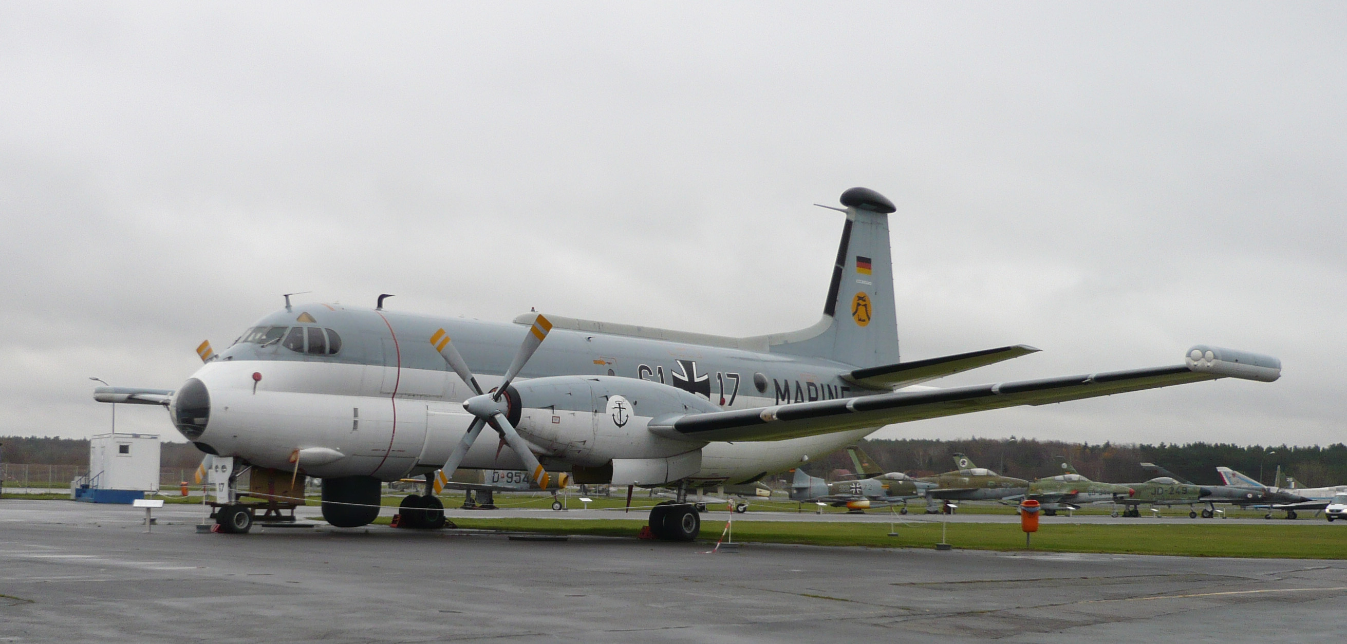 Luftwaffenmuseum der Bundeswehr ("Air Force Museum of the Bundeswehr"), Berlin, Breguet Atlantic